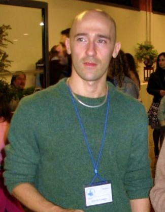 Marcello Catalano in 2008